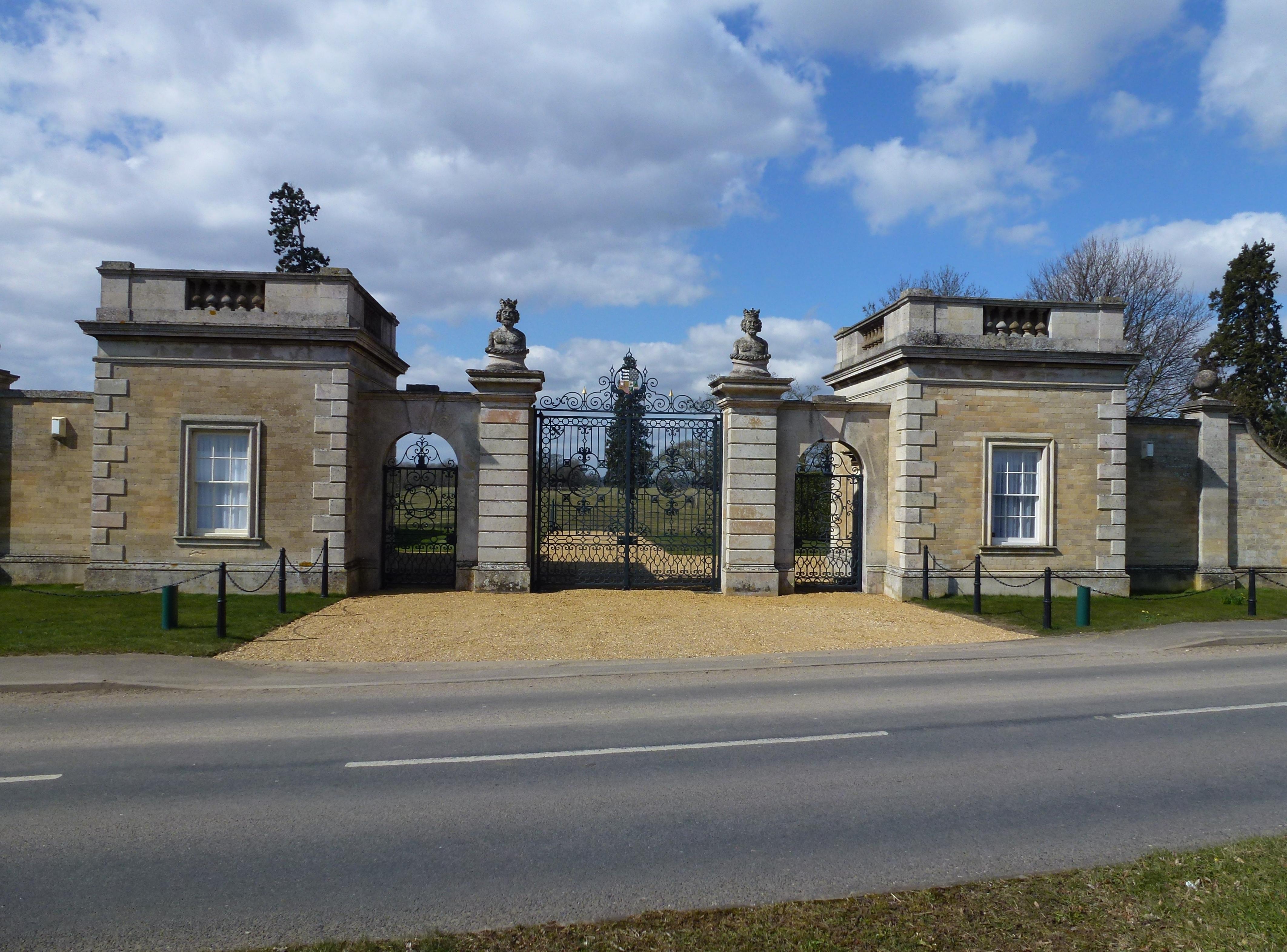 Gate lodges to former Uffington House